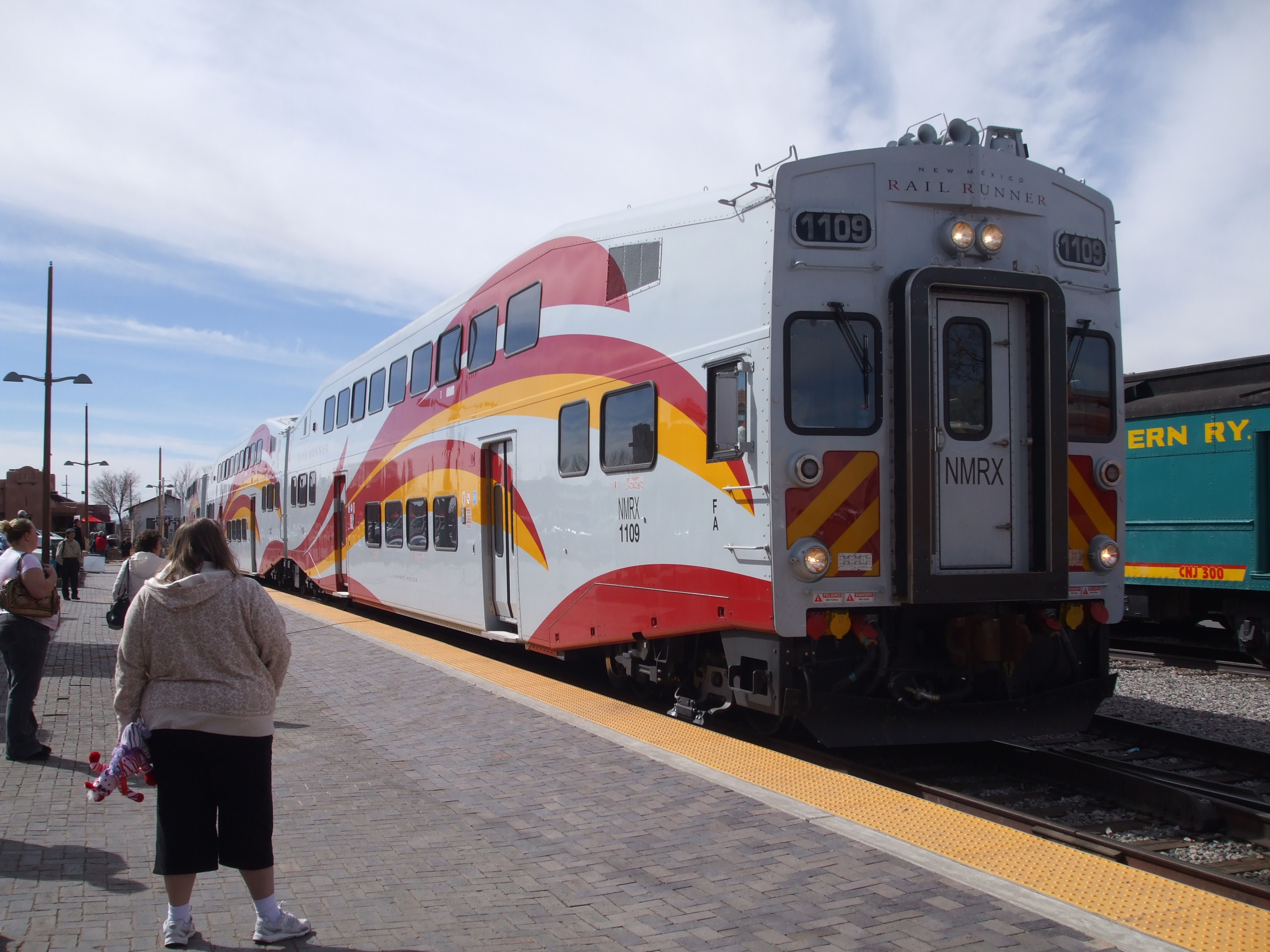 Rail Runner Express rear carriage cab. The service is operated by the push-pull principle, with the locomotive always at the southern end of the train. Taken at Santa Fe Depot, the northern terminus.